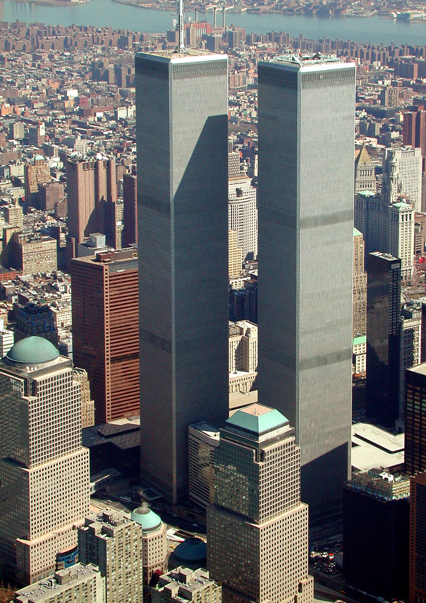 World Trade Center, New York, aerial view March 2001.